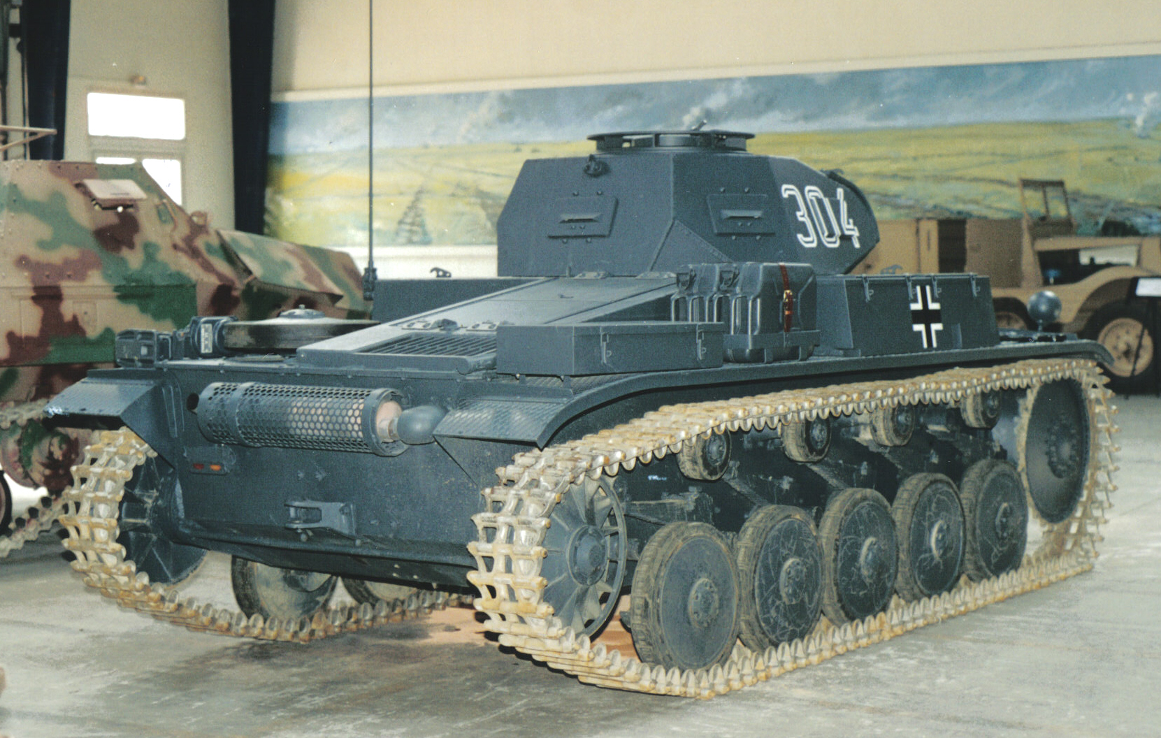 Back of PzKpfw II at Saumur